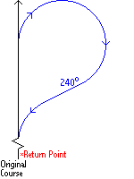 Diagram of a Scharnow turn, created by the Epopt